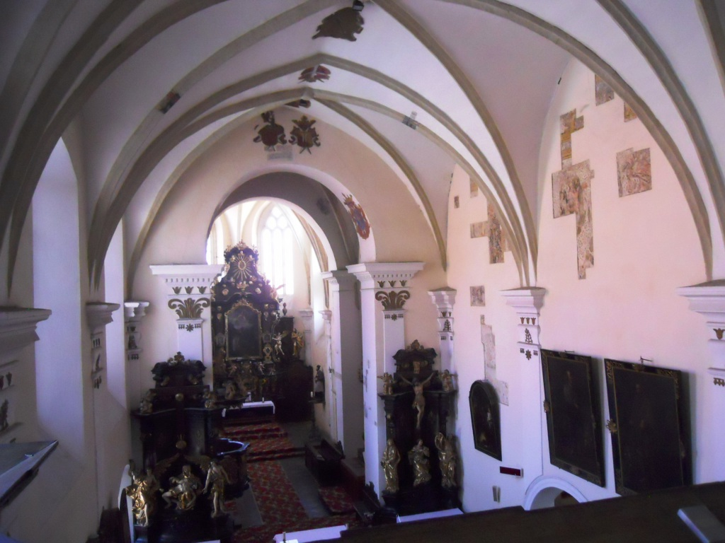 Strakonice castle St Procopius church interior